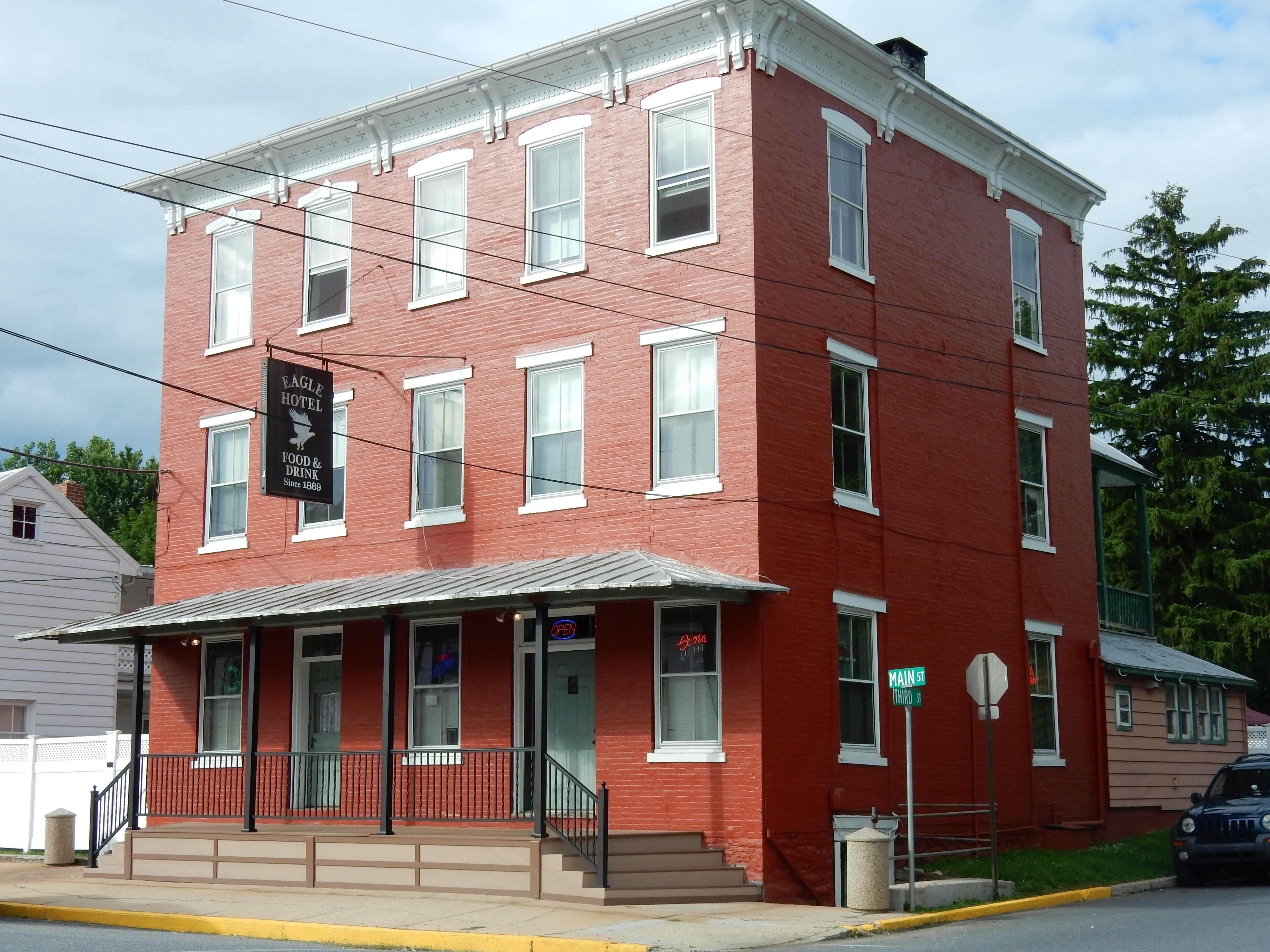 Eagle Hotel, 201 N. Main St., Bernville, Berks County, Pennsylvania. Corner of 3rd St.